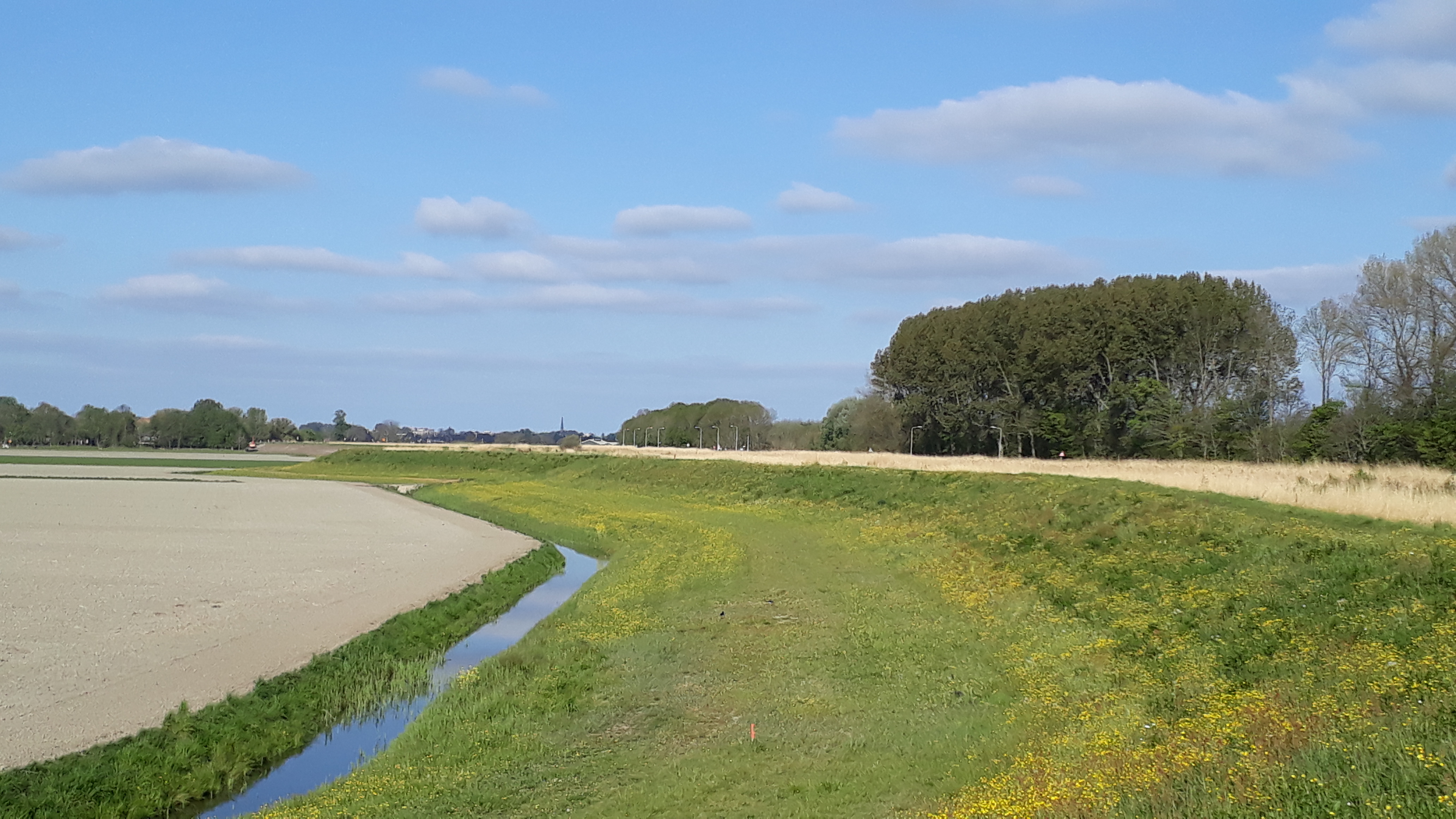 Westfrisian ringdike, the 'old' Huigendijk at Oterleek